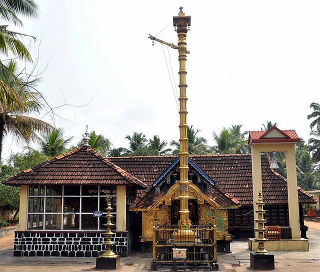 Temple